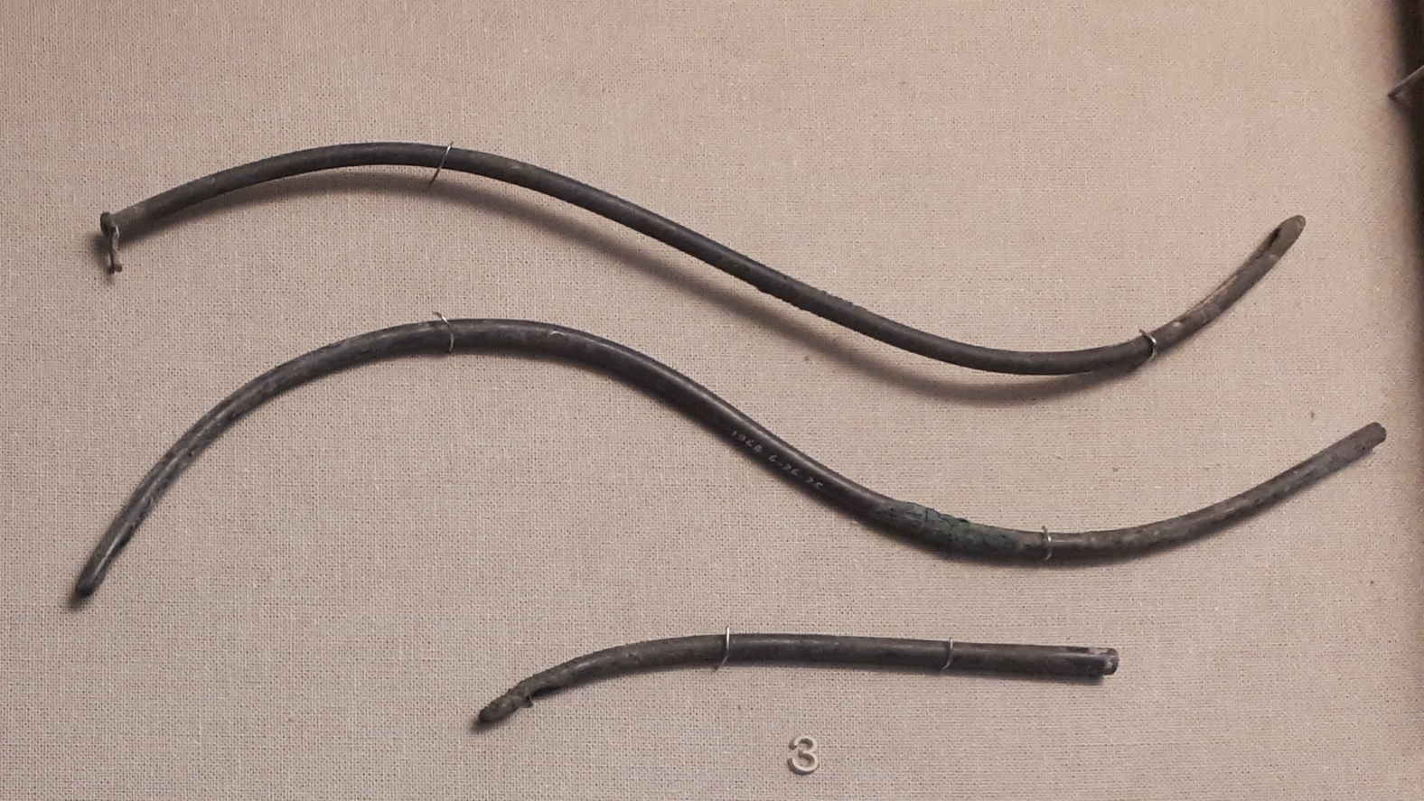 Roman catheters on display at the British Museum. Description.